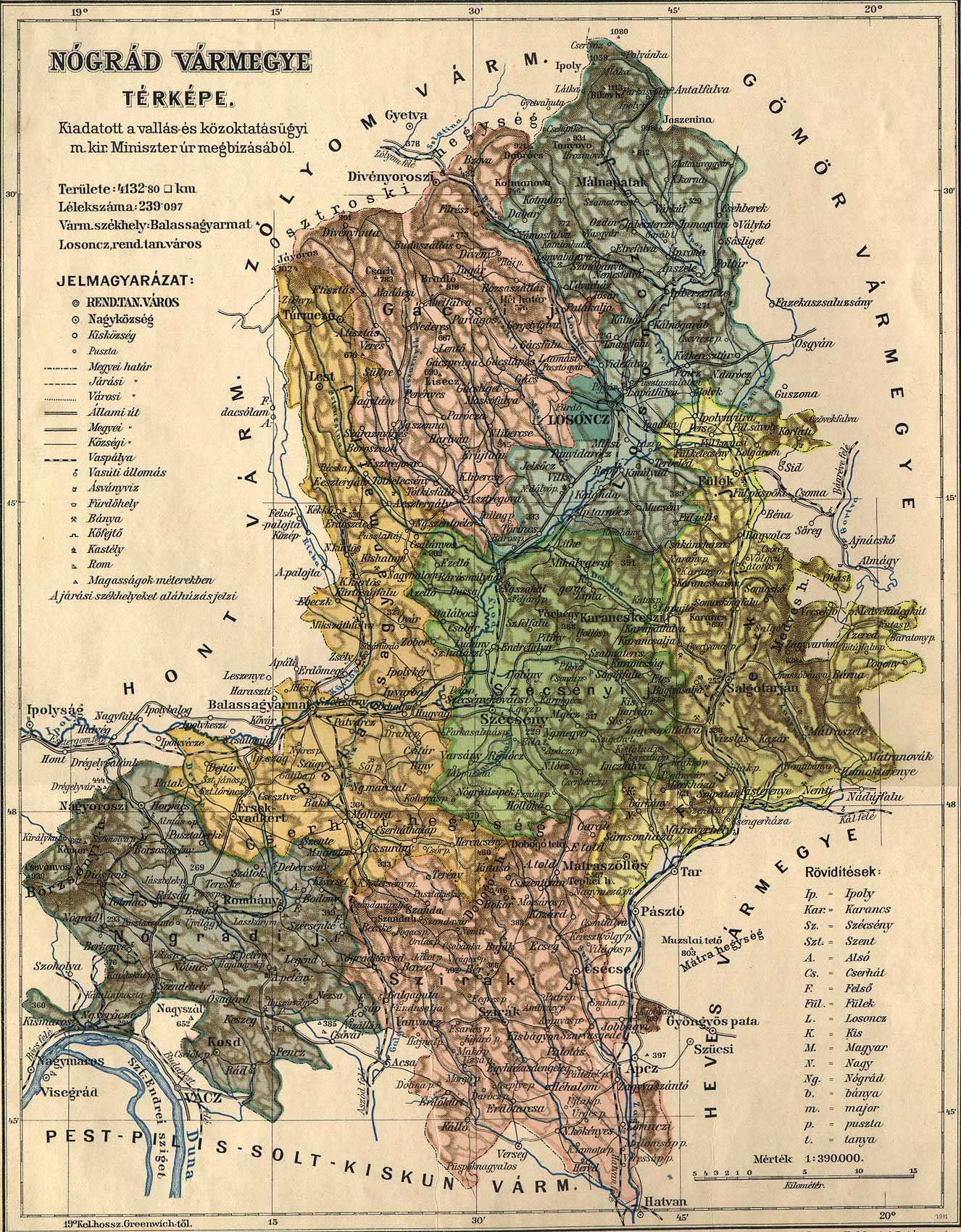 Administrative map of the county of Nógrád in the Kingdom of Hungary